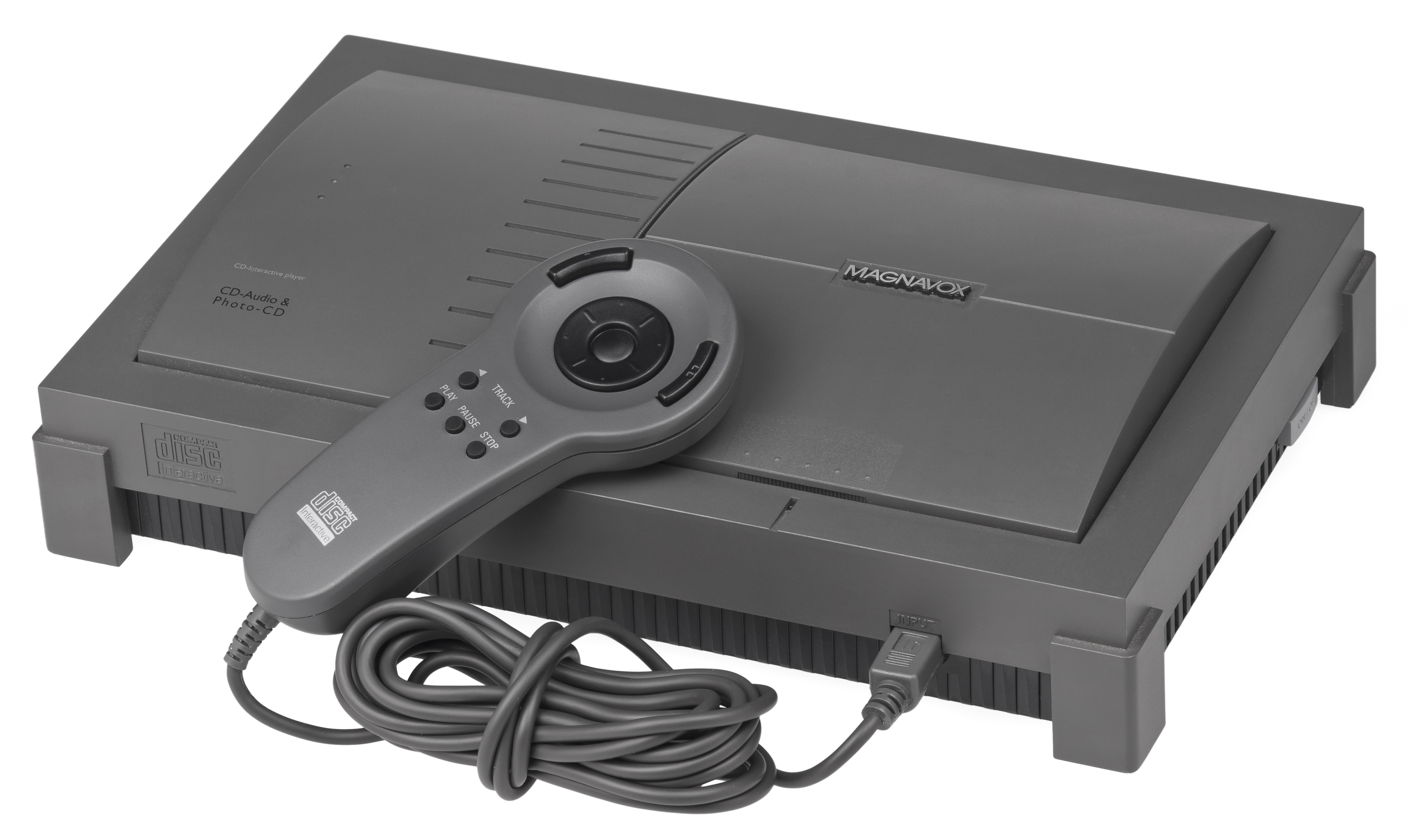 A Philips CD-i console, shown with controller.